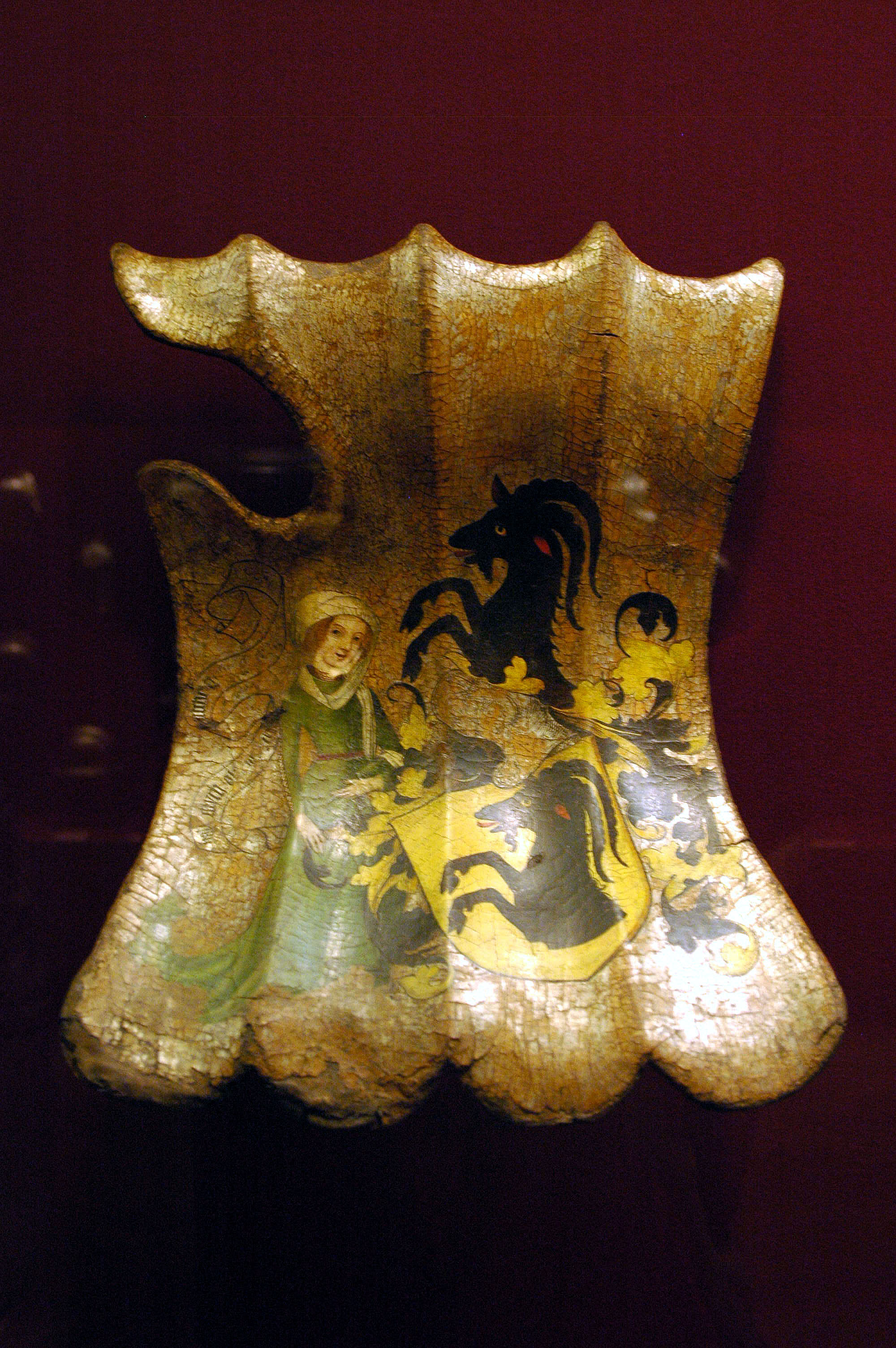 Tournament Shield (Targe), ca. 1450 German Wood; H. 22 in. (55.88 cm) W. 16 in. (40.64 cm) The Metropolitan Museum of Art, New York, Gift of Mrs. Florence Blumenthal, 1925 (25.26.1) View at the Metropolitan Museum of Art website Wikipedia Loves Art at the Metropolitan Museum of Art This photo of item # 25.26.1 at the Metropolitan Museum of Art was contributed under the team name "Futons_of_Rock" as part of the Wikipedia Loves Art project in February 2009. Metropolitan Museum of Art The original photograph on Flickr was taken by AlkaliSoaps—please add a comment to the original Flickr page whenever a use has been made on Wikipedia or another project. Project galleries on Flickr: this institution, this team